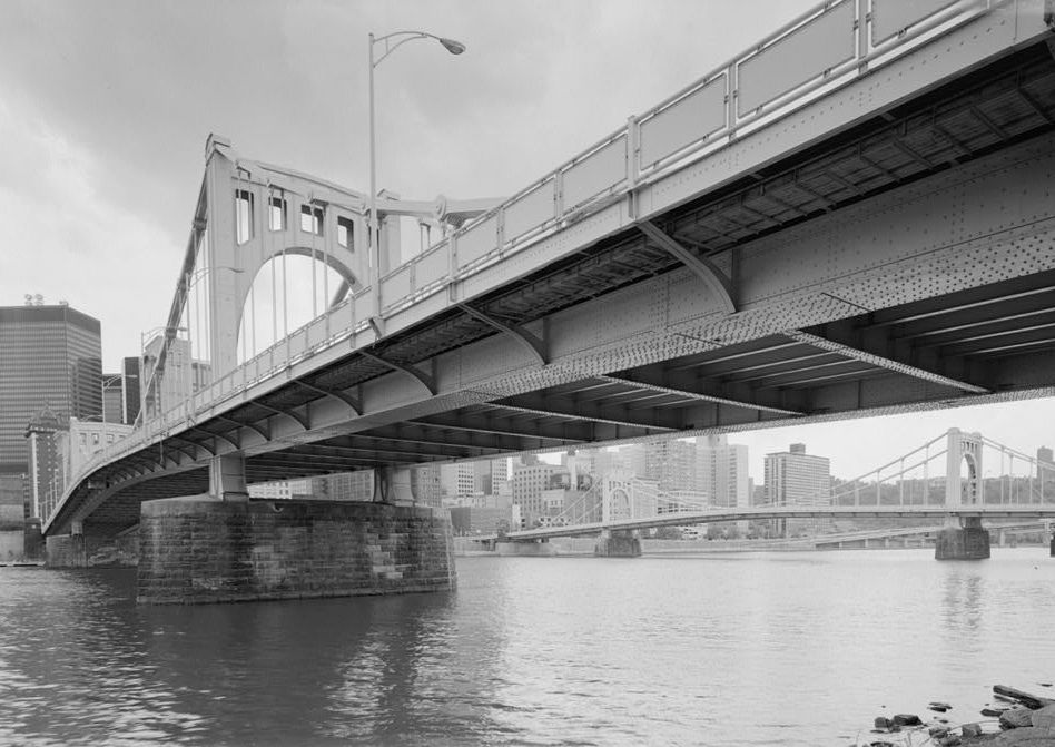 Jet Lowe, photographer, summer 1999 PA-490-B-1 SEVENTH STREET BRIDGE, LOOKING SW WITH SIXTH STREET BRIDGE IN BACKGROUND. Pittsburgh Seventh Street Bridge. Image, showing eyebar main and suspender cables, retrieved from Historic American Engineering Record. Sister bridge is in background (6th street according to caption)